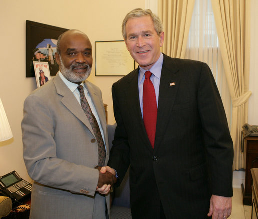 President George W. Bush meets with President-elect Rene Preval of Haiti at the White House, Tuesday, March 28, 2006 in Washington. White House photo by Kimberlee Hewitt